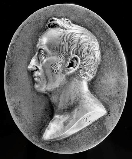 1910, Unknown, c. 1910 Photograph of medallion in RU95 B21 F1A, negatives 33395 or SA-766. The medallion was originally attributed to the Italian artist Antonio Canova, but the "T" mark on the medallion identifies it as created by Pierre Joseph Tiolier The front view of a plaster medallion painted gold with image of James Smithson (1765-1829) prepared for the Smithsonian Institution by Smithsonian art curator, Ruel P. Tolman, based on a neo-classical bust medallion of Smithson in bas relief attributed to the Engraver General of France, Pierre Joseph Tiolier (1763-1819), which was found among Smithson's personal effects after his death